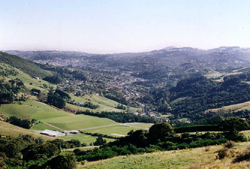 Looking down North East Valley towards Dunedin, New Zealand (photo by James Dignan, March 2005)